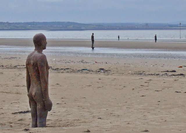 Another Place Antony Gormley installation on Crosby sands.